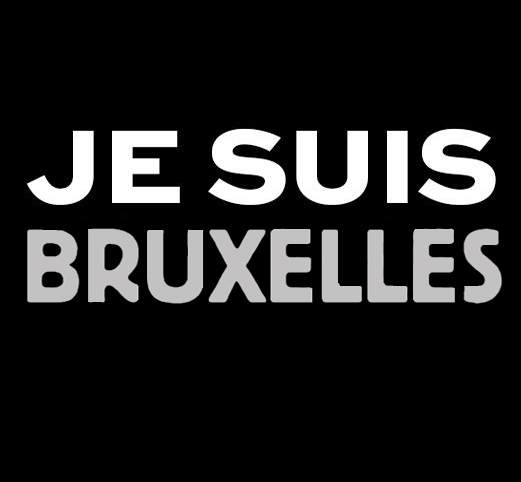 Show of solidarity Je suis Bruxelles (“I am Brussels”) after the 2016 Brussels bombings